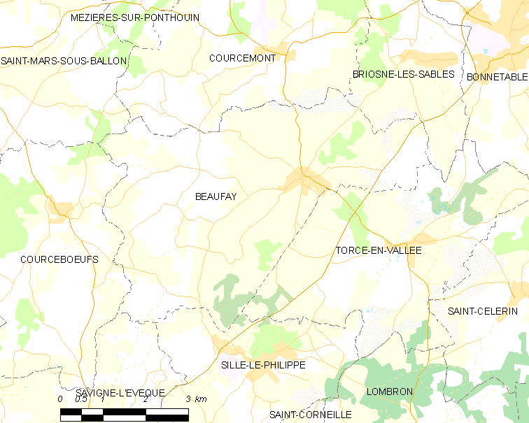 Map of French municipality